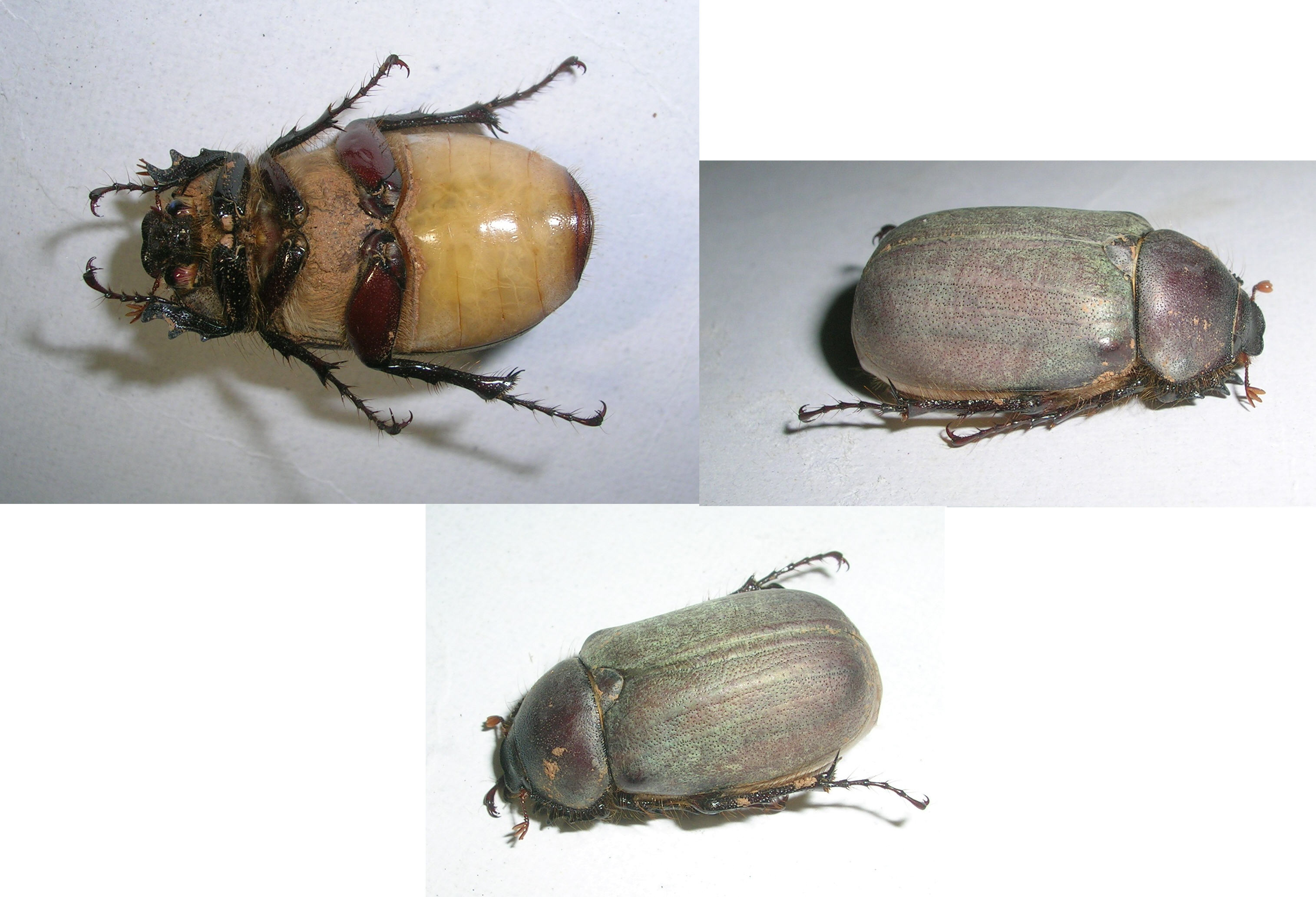 Holotrichia cf. reynaudi, from Bangalore. Determination from photograph Dr ARV Kumar, UAS Bangalore